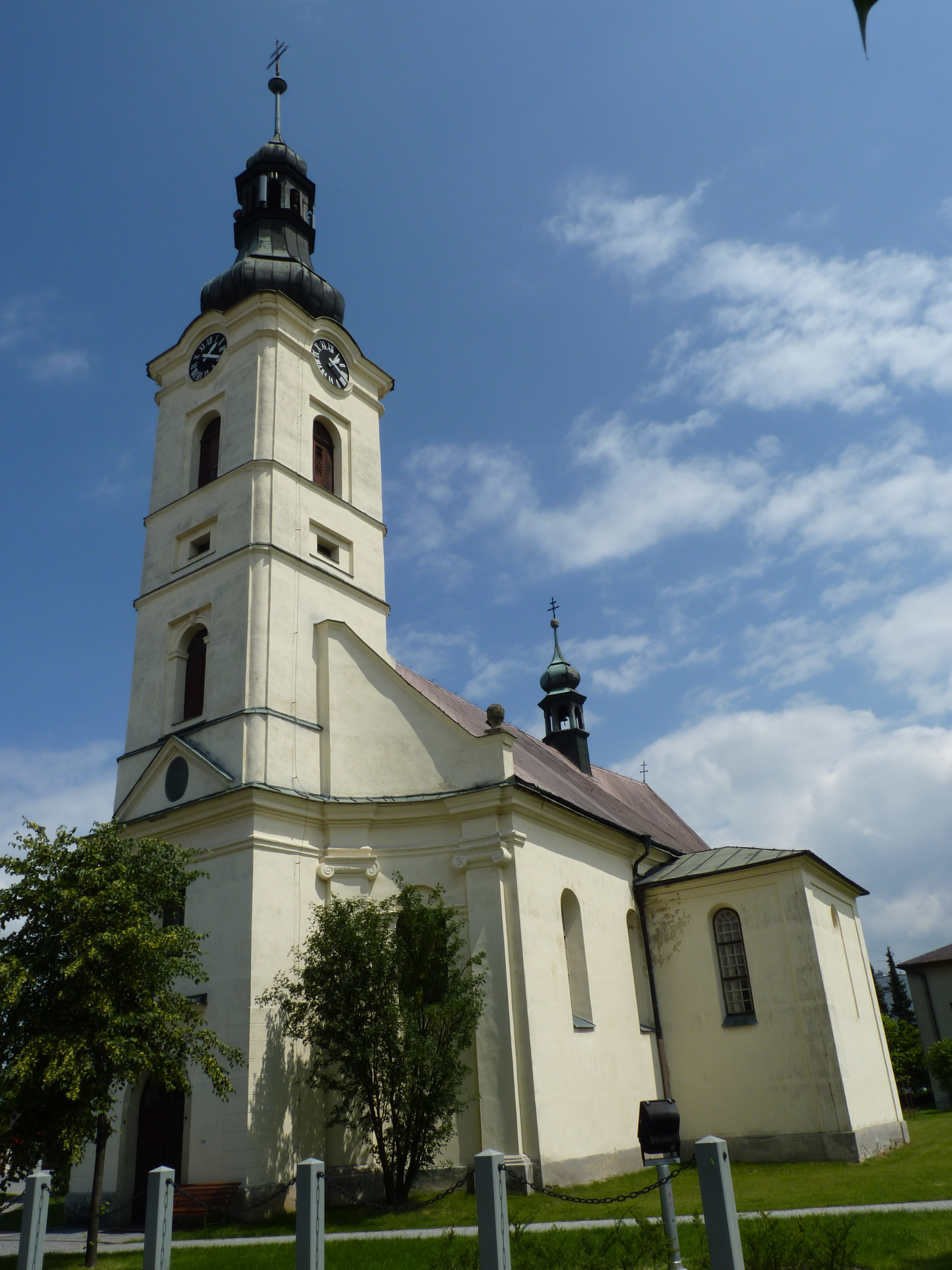 Dobrá. Frýdek Místek District, Moravian-Silesian Region, Czech Republic